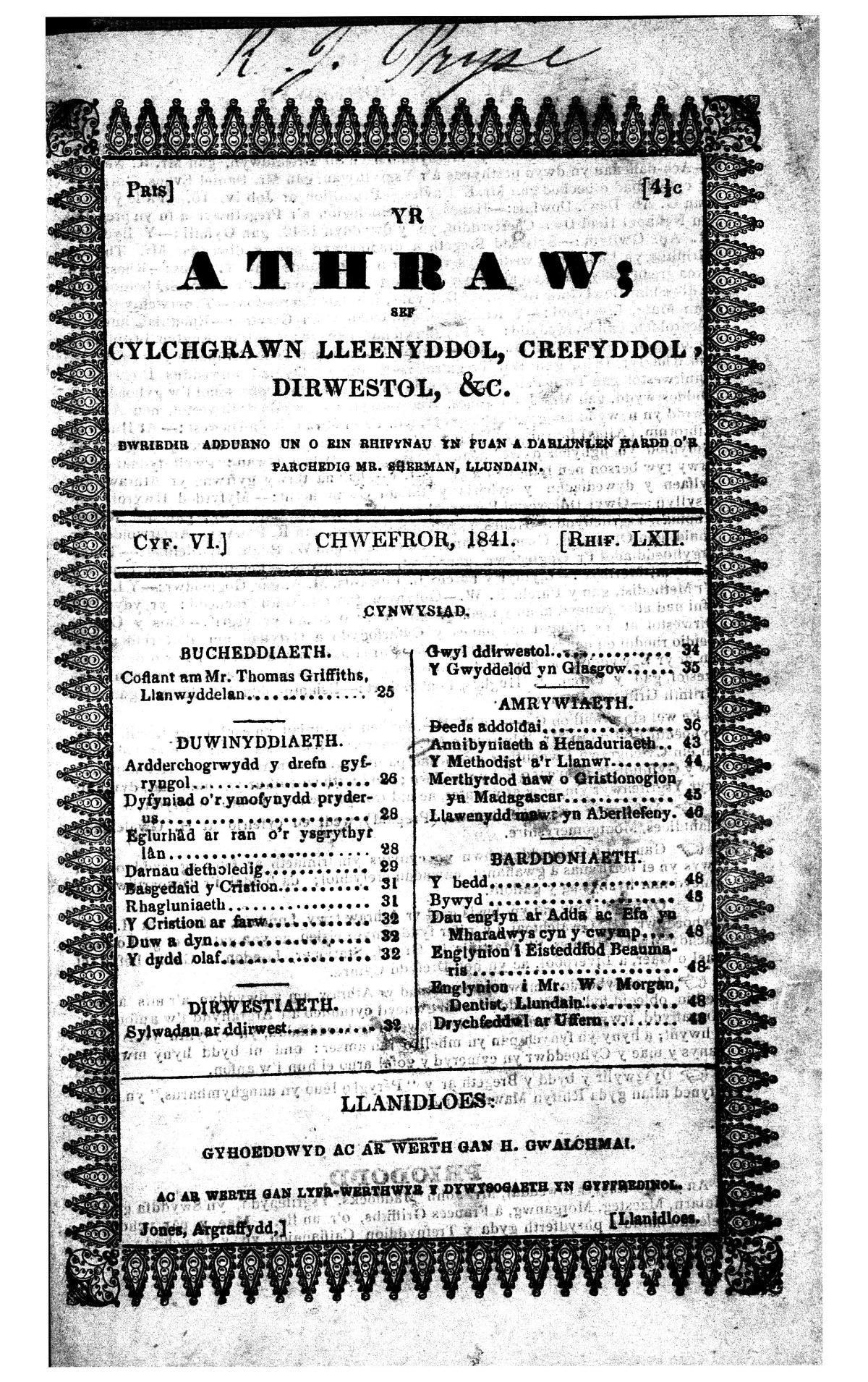 A monthly Welsh language temperance and general periodical that mainly published articles on temperance and religion alongside poetry. The periodical was edited by the Calvinist Methodist minister, Humphrey Gwalchmai (1788-1847).